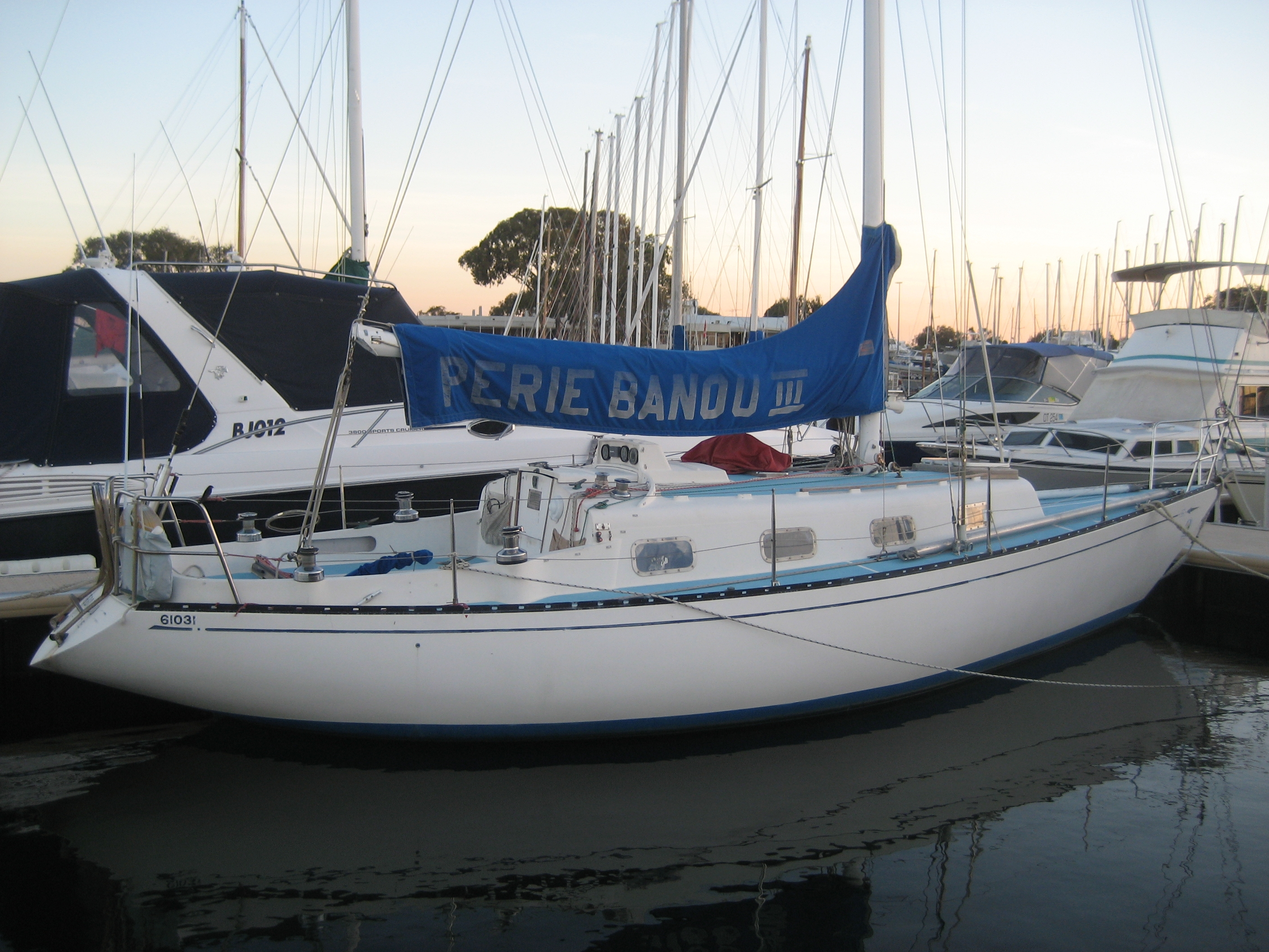 Perie Banou III, a S&S 34 class yacht